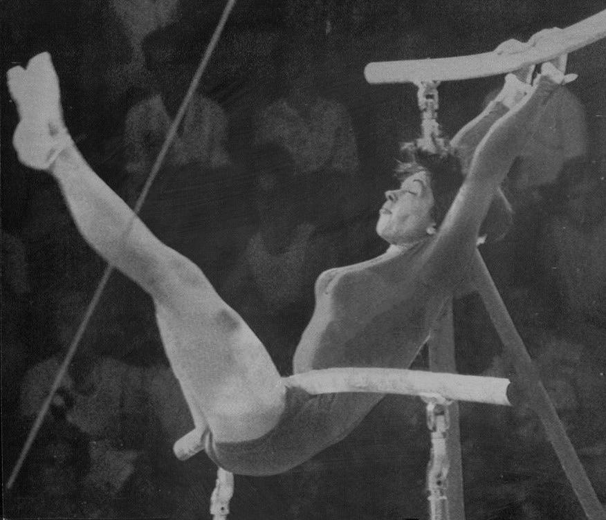 LD33 1967 Wire Photo DONNA SCHAENZER Pan American Games Gymnastics Uneven Bars